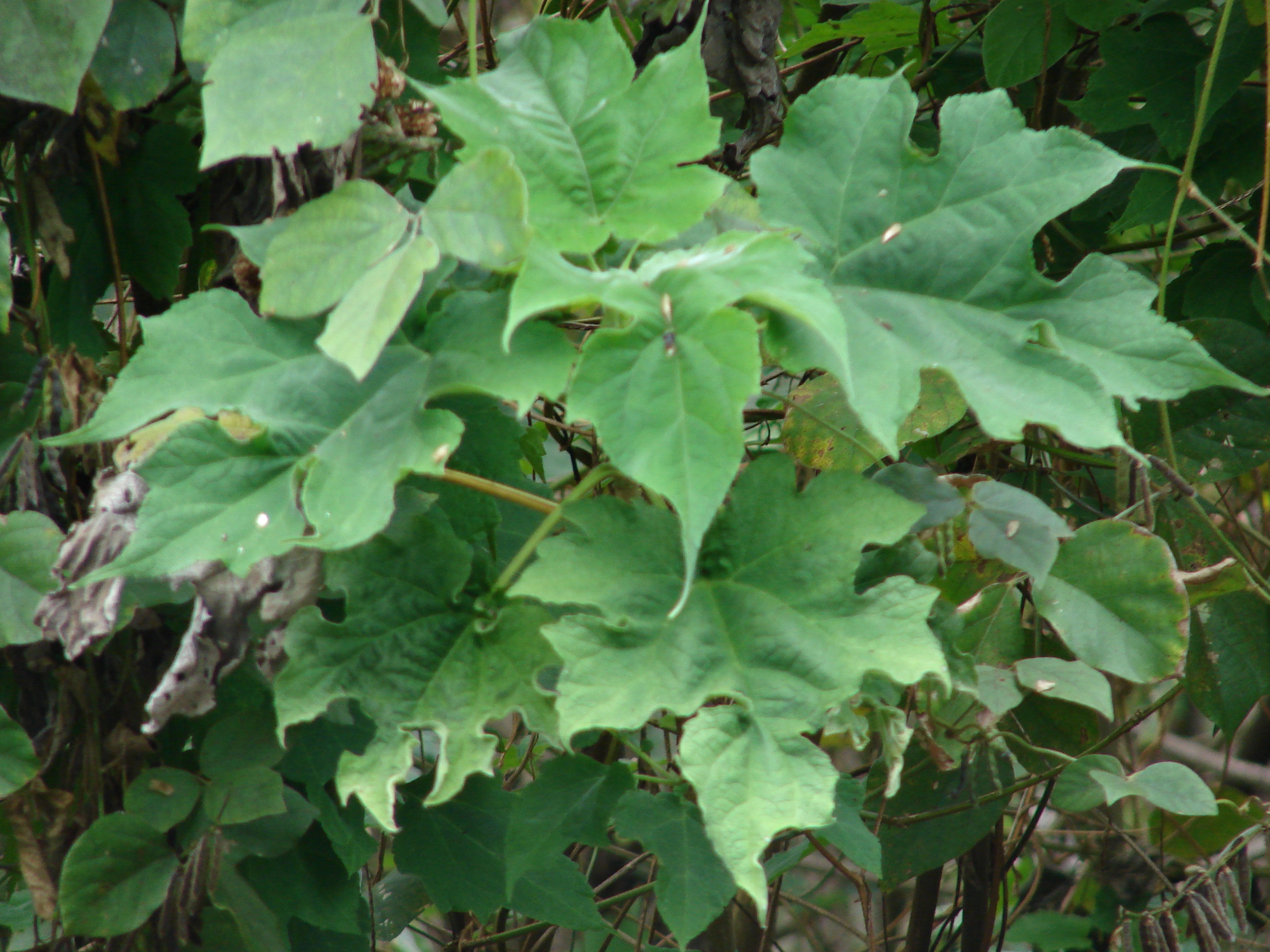 Montanoa hibiscifolia (leaves). Location: Maui, Keokea